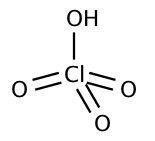 Perchloric acid, HClO4